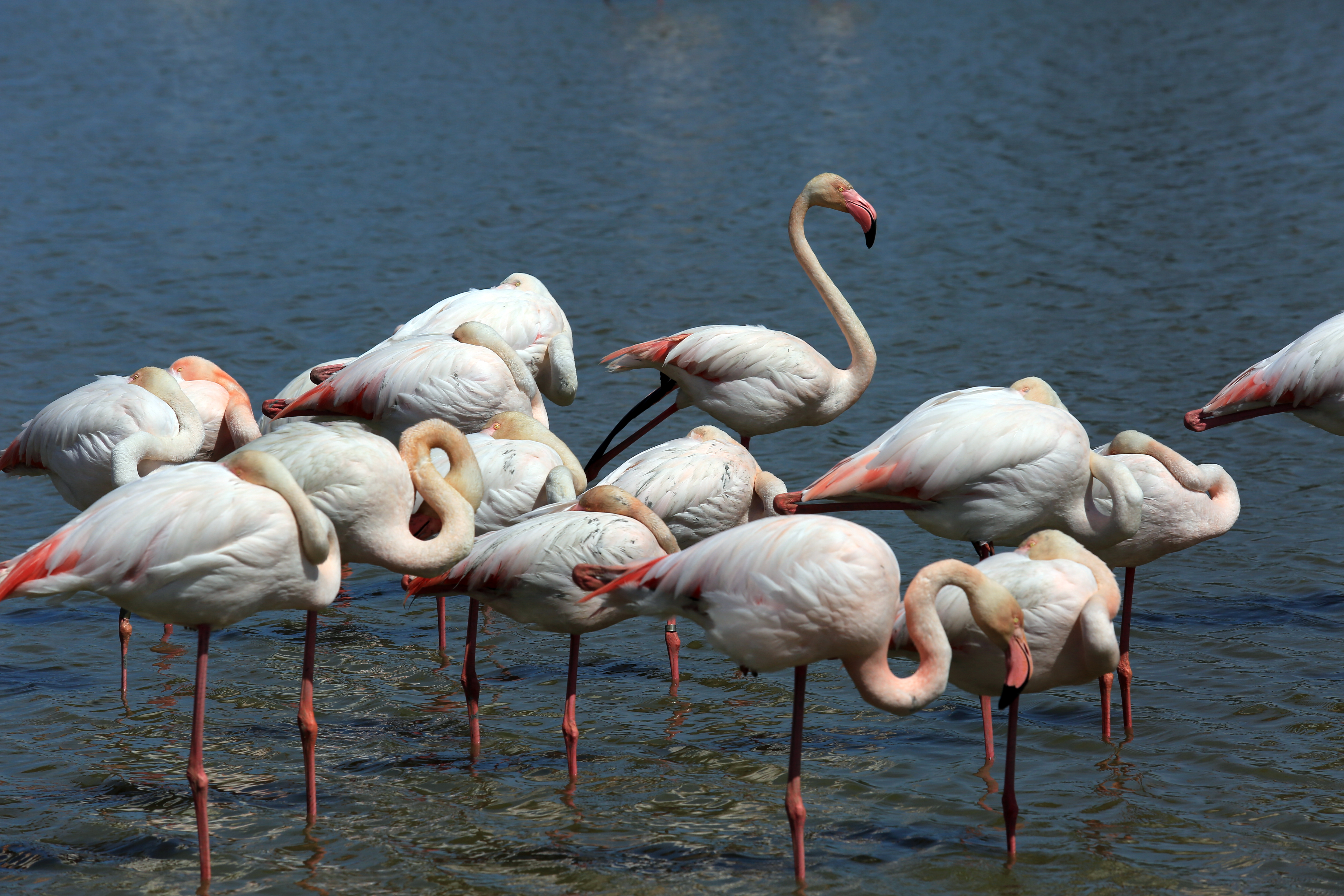 The marsh of Ginies with Greater Flamingos Phoenicopterus roseus in rusting.